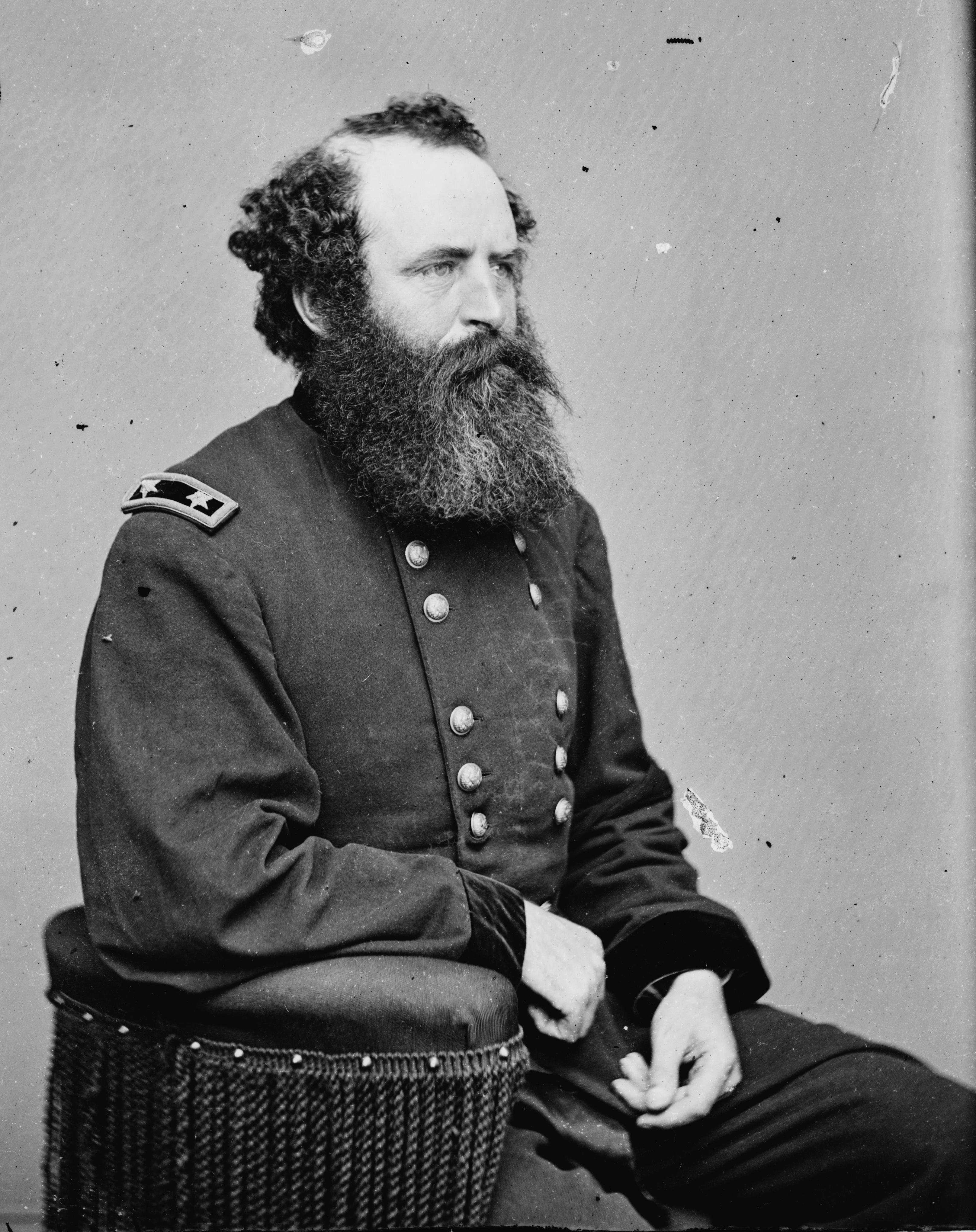 Romeyn B. Ayres (1825-1888). Library of Congress description: "Gen. R. B. Ayers"